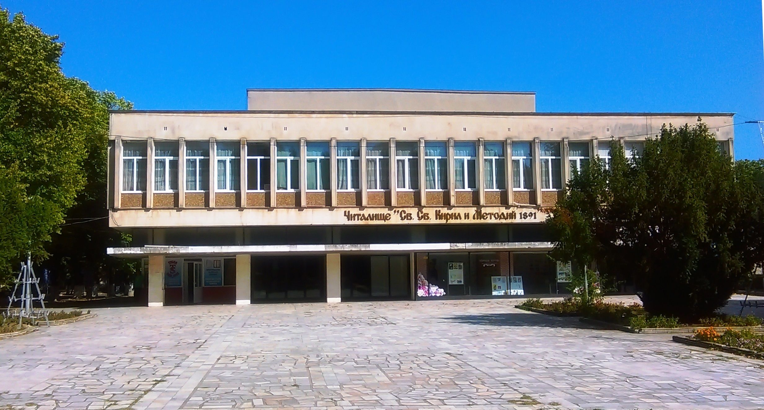 Lycaeum in Kubrat, Razgrad province